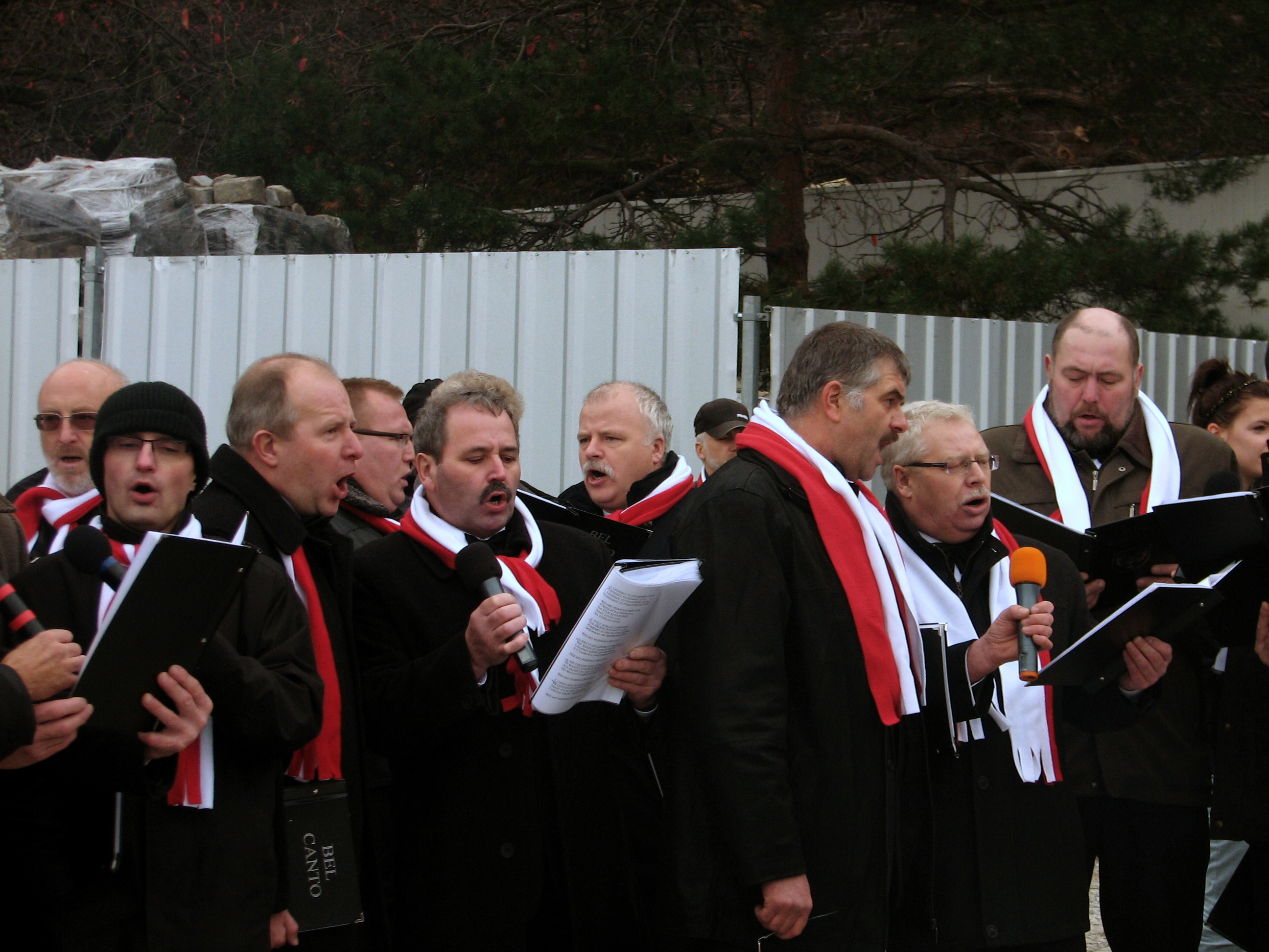 Patriotic songs, carillon concert and meeting with participants of parade in Gdańsk during Independence Day 2010.